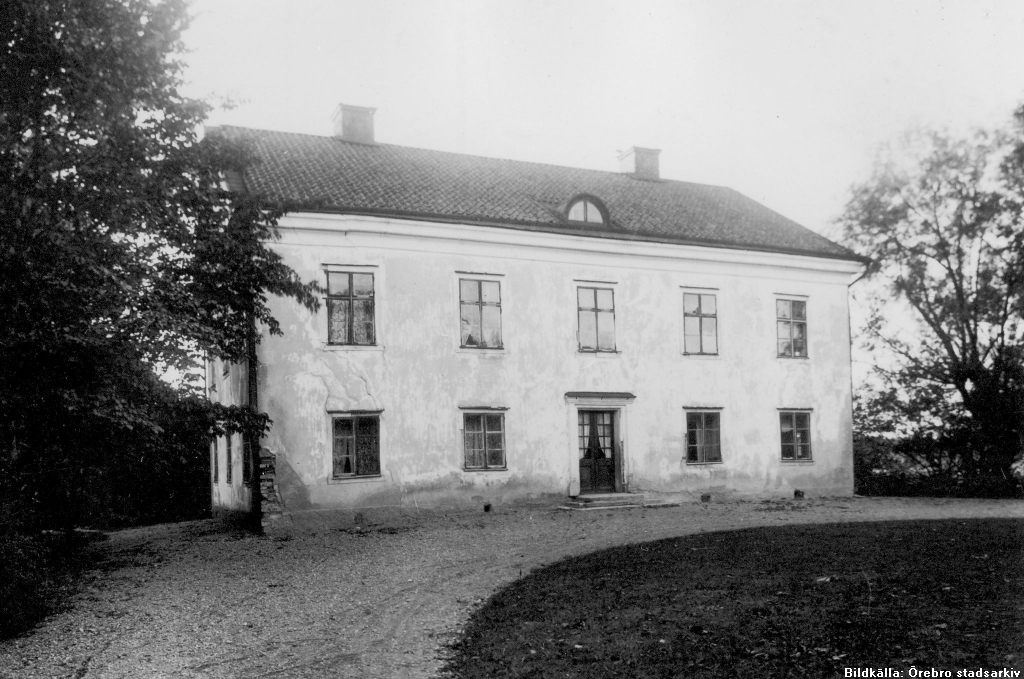 The manor Frisagården outside Örebro, Sweden